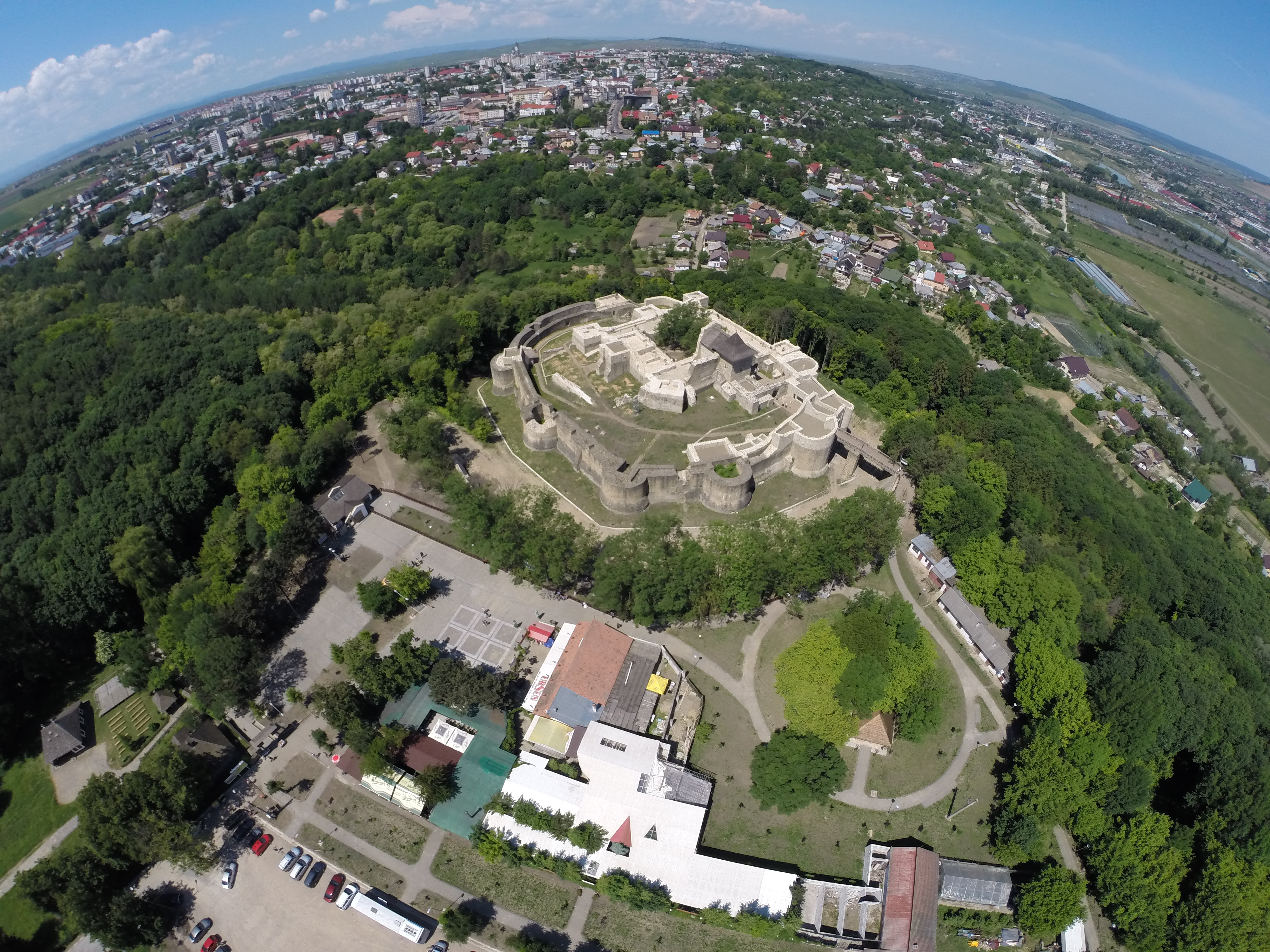 Seat Fortress of Suceava – aerial view.